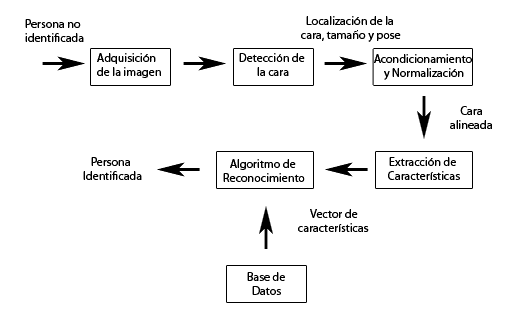 Face recognition system processing flow